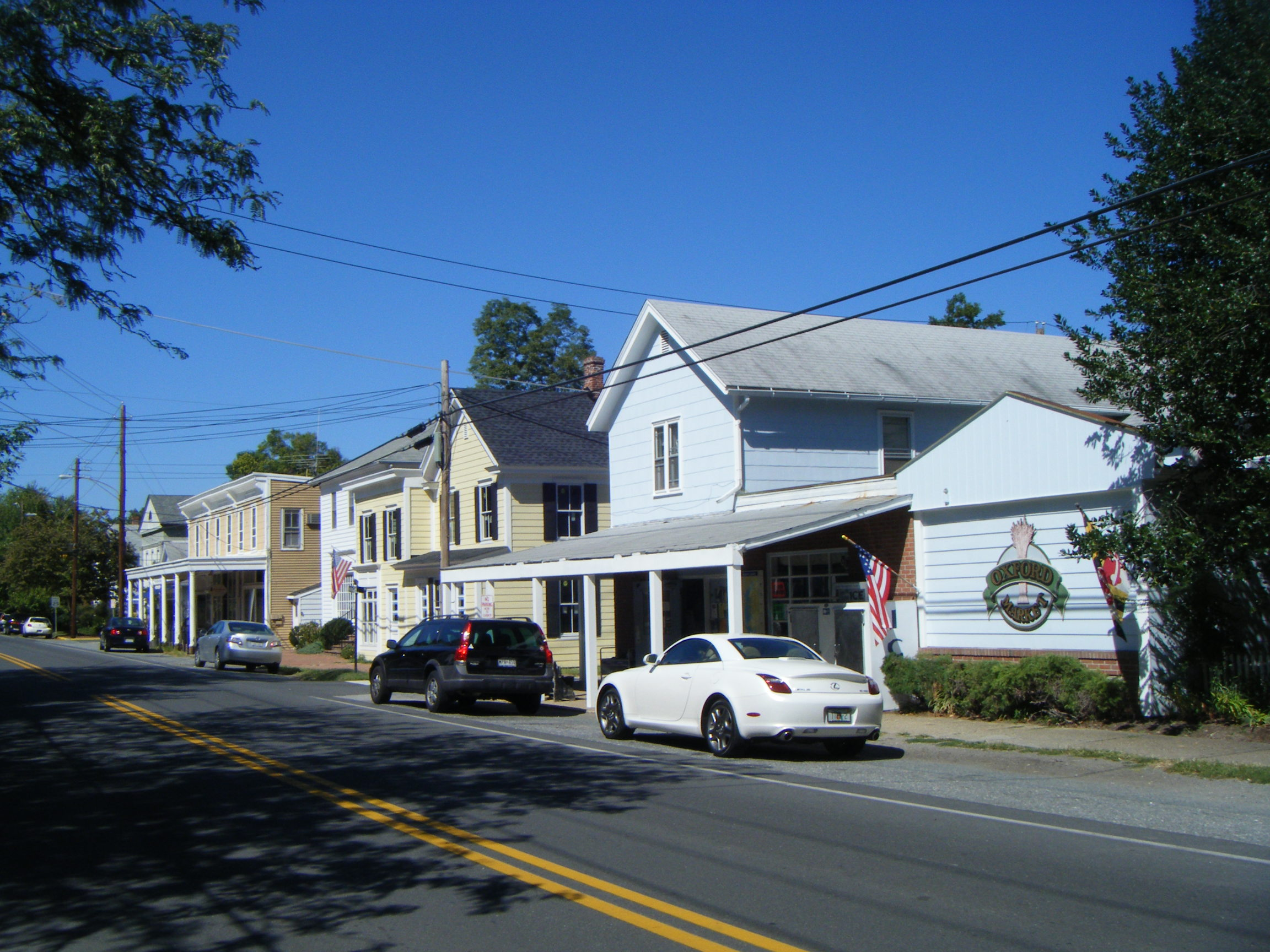 Stores along North Morris Street in Oxford, Maryland